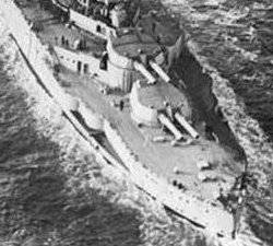 Aerial view of aft port side of British battleship HMS Queen Elizabeth, showing aft casemates for secondary 6-inch guns plated over.